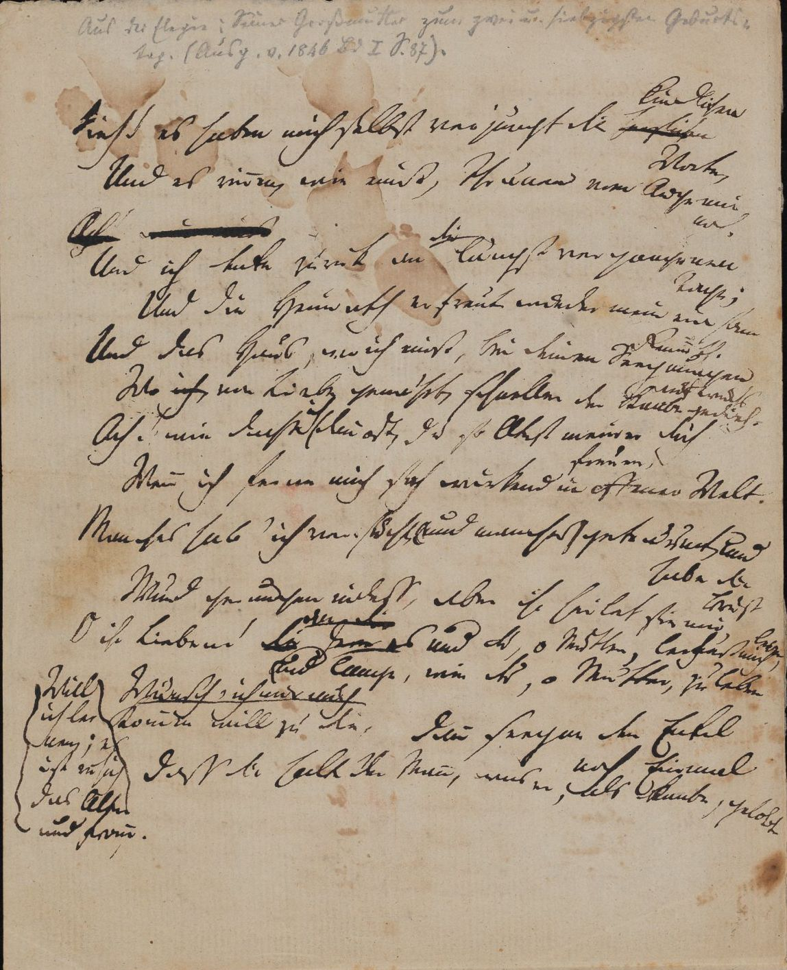 Manuscript by Friedrich Hölderlin of verses 21-34 his poem Meiner verehrungswürdigen Großmutter zum 72. Geburtstag